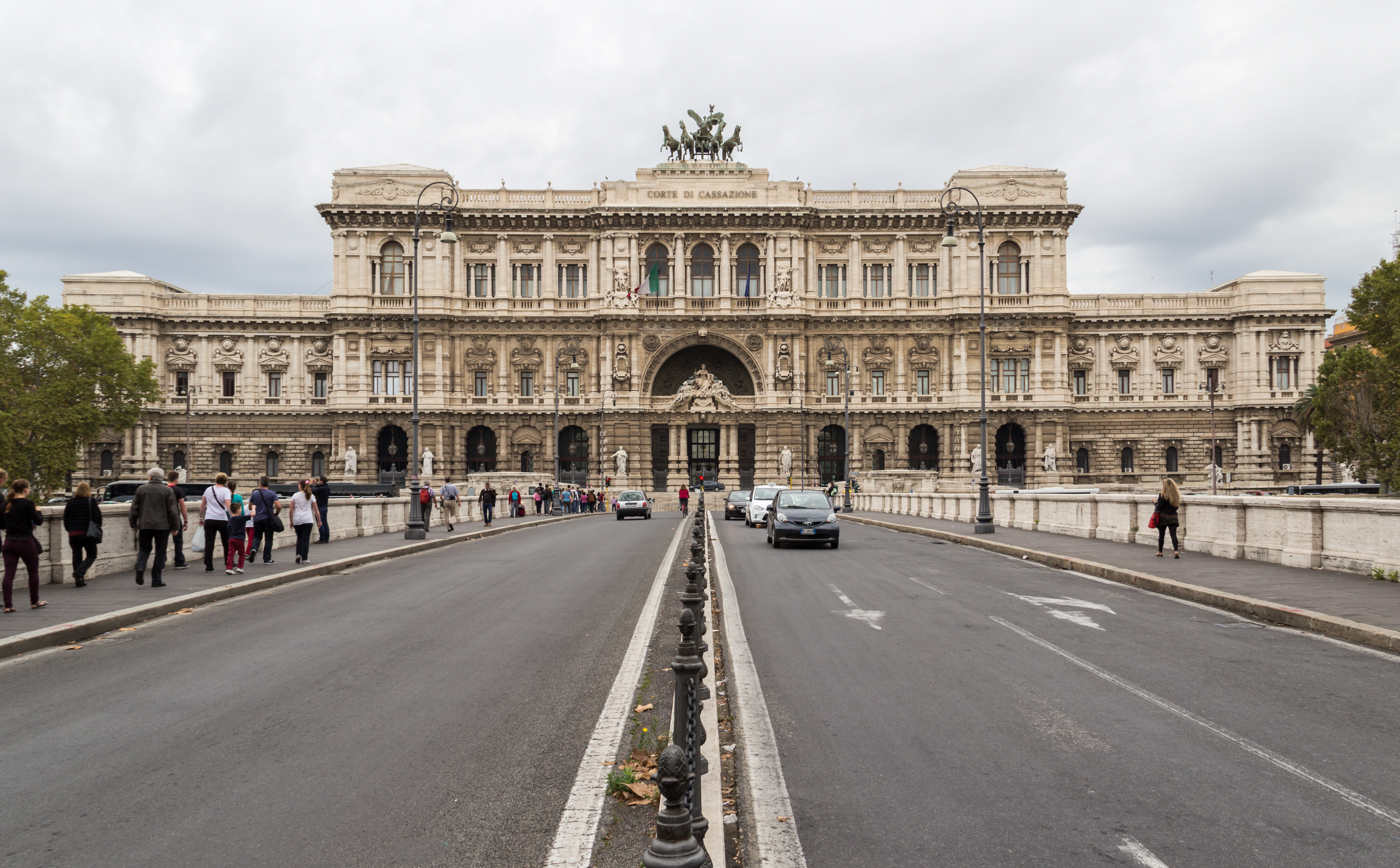 Corte Suprema di Cassazione, Rome, Italy